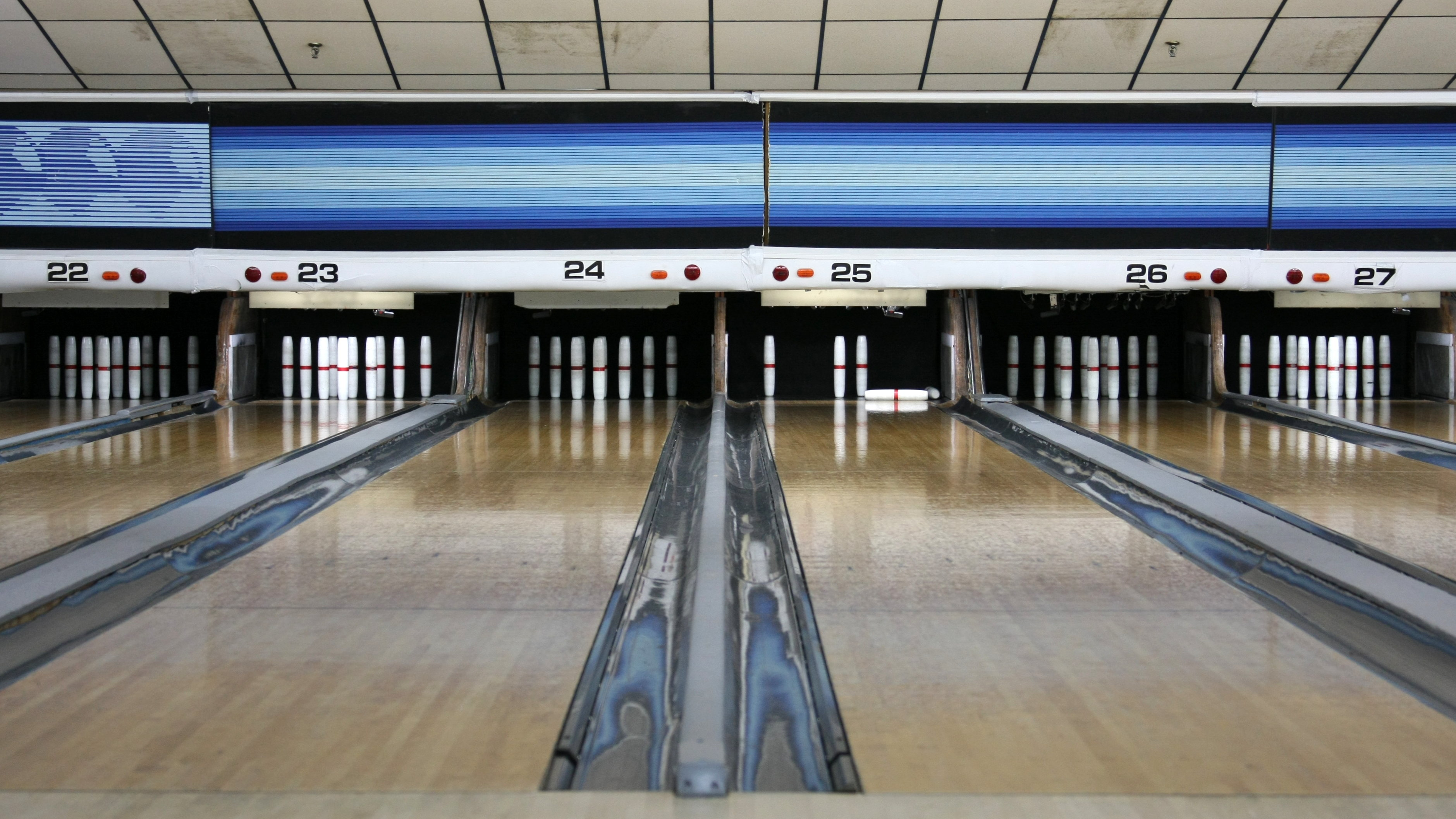 Candlepin Lanes in New England